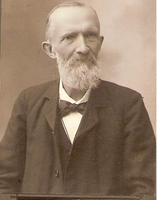 Ludovic Mrazec senior, also Ludvík Severin Franz Mrázek (* 1835 † 1913), pharmacist in Craiova, father of geologist Ludovic Mrazec